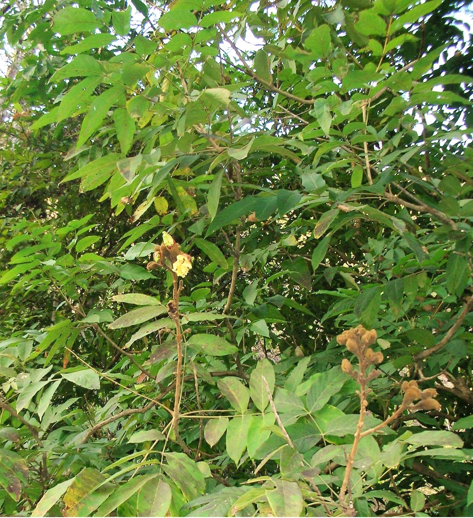 Markhamia stipulata tree